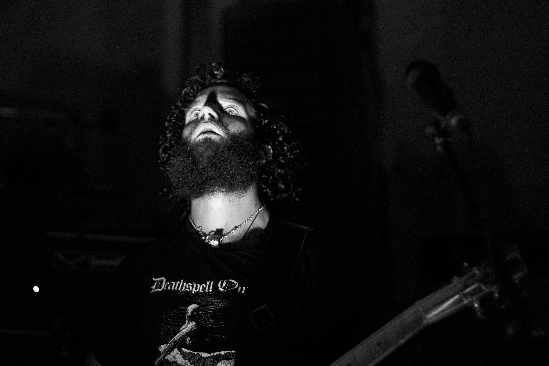 View in my concert gallery.